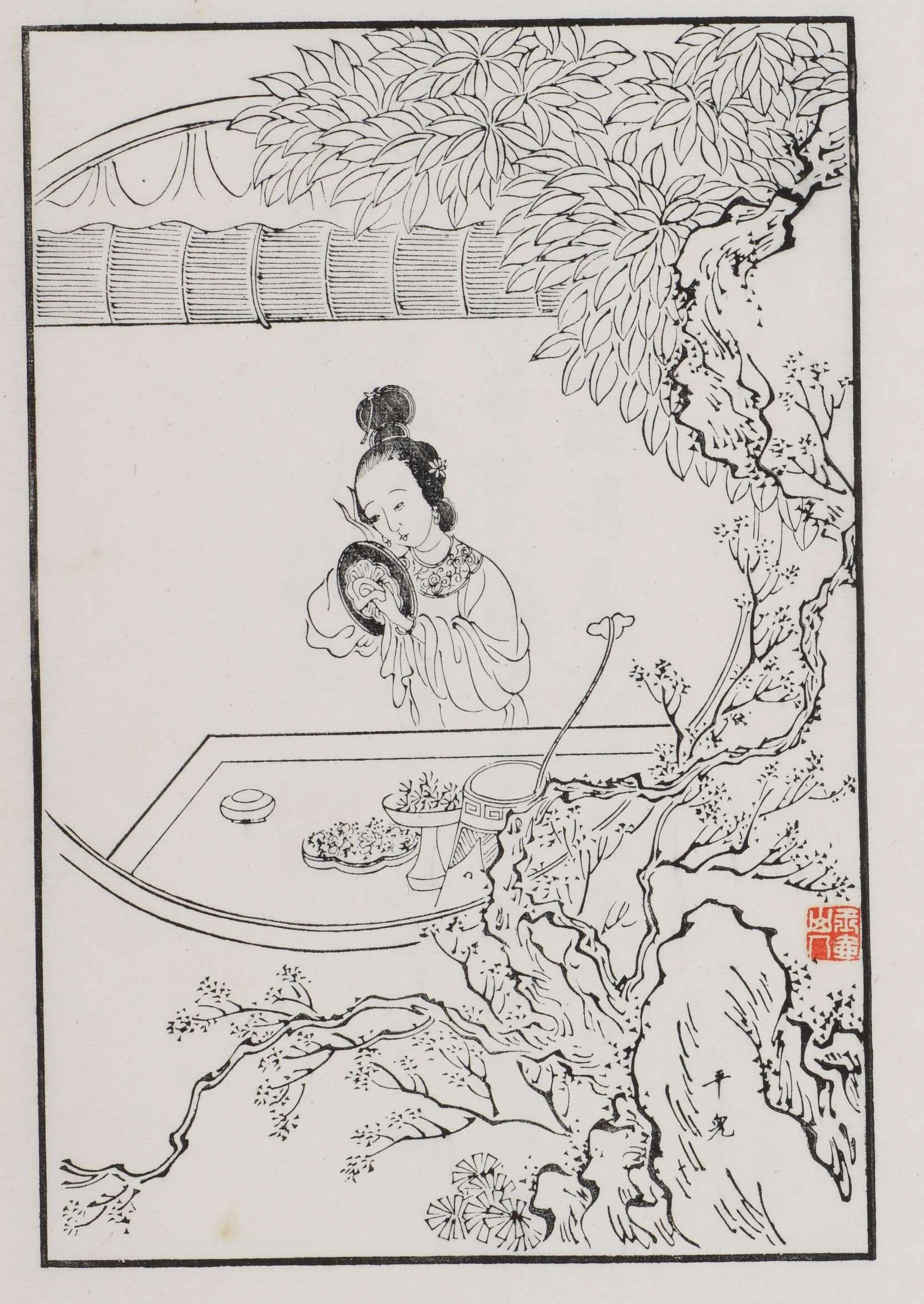 Ping er